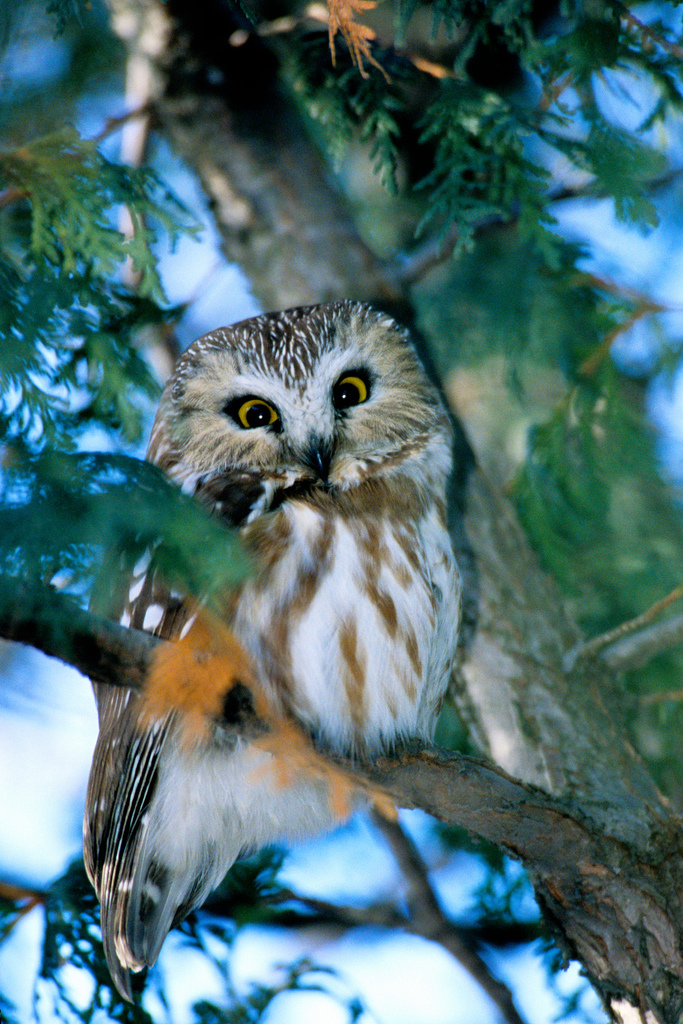 Northern Saw-wet Owl